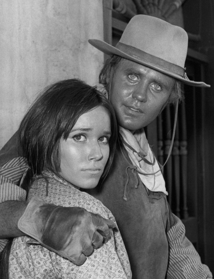 Photo of Mark Slade as Billy Blue Cannon and guest star Barbara Hershey in the television program The High Chaparral.